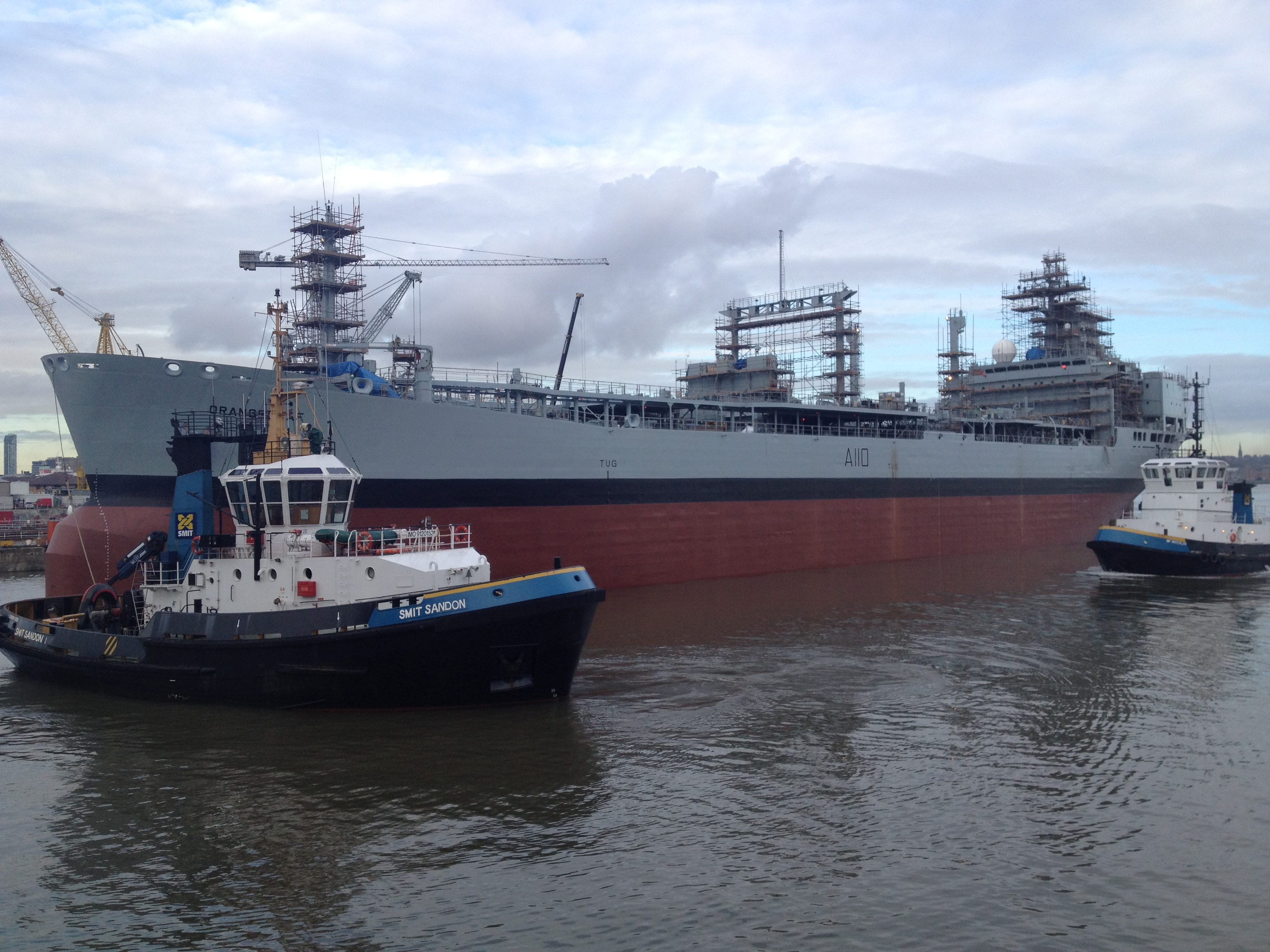 RFA Orangeleaf during her major refit at Cammell Laird yard in Birkenhead. Photographed while being moved from dry dock to basin.